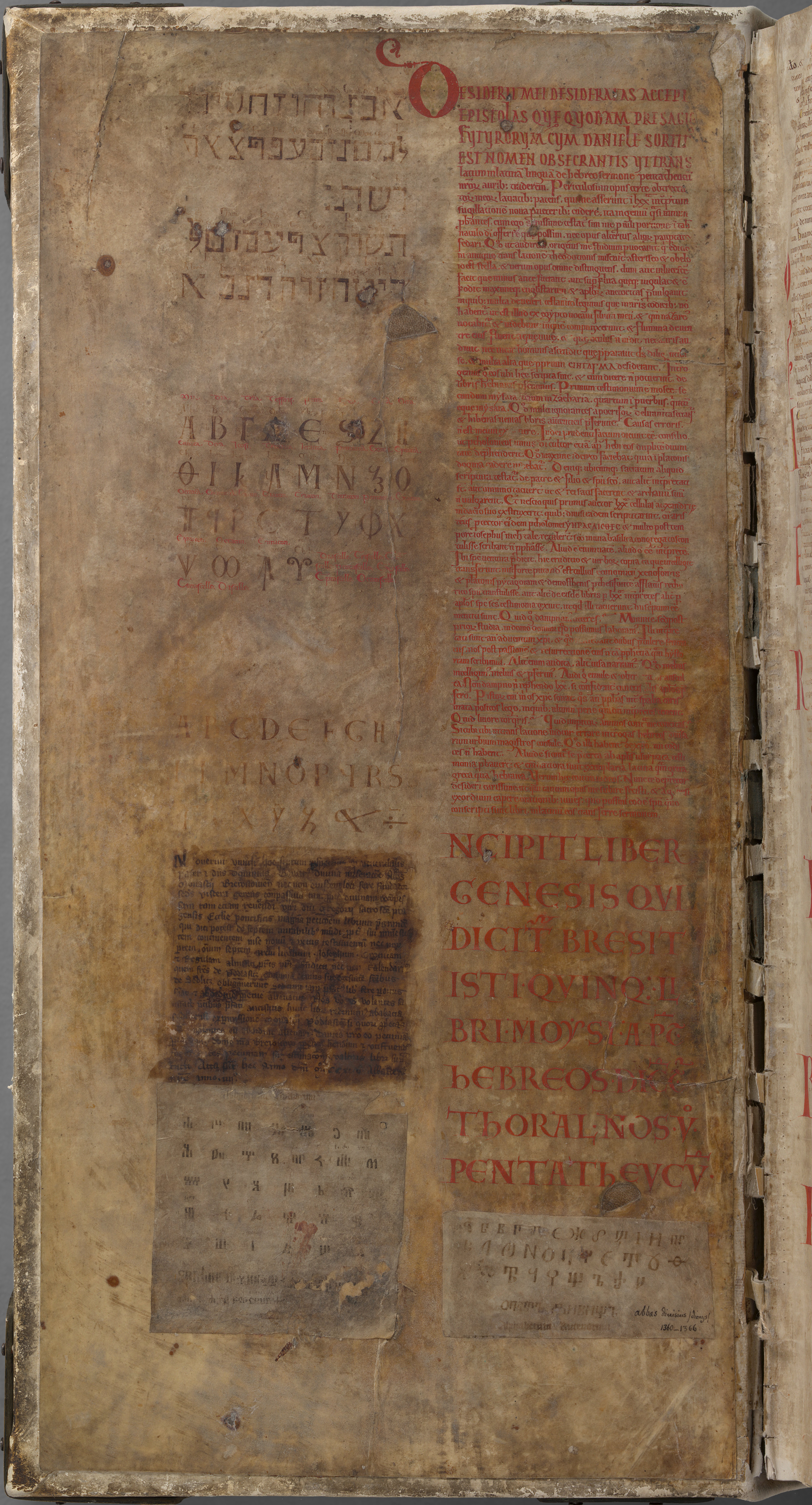 Giant Book) is the largest extant medieval manuscript in the world. It is also known as the Devil's Bible because of a large illustration of the devil on the inside and the legend surrounding its creation. It is thought to have been created in the early 13th century in the Benedictine monastery of Podlažice in Bohemia (modern Czech Republic). It contains the Vulgate Bible as well as many historical documents all written in Latin. During the Thirty Years' War in 1648, the entire collection was taken by the Swedish army as plunder, and now it is preserved at the National Library of Sweden in Stockholm, though it is not normally on display.